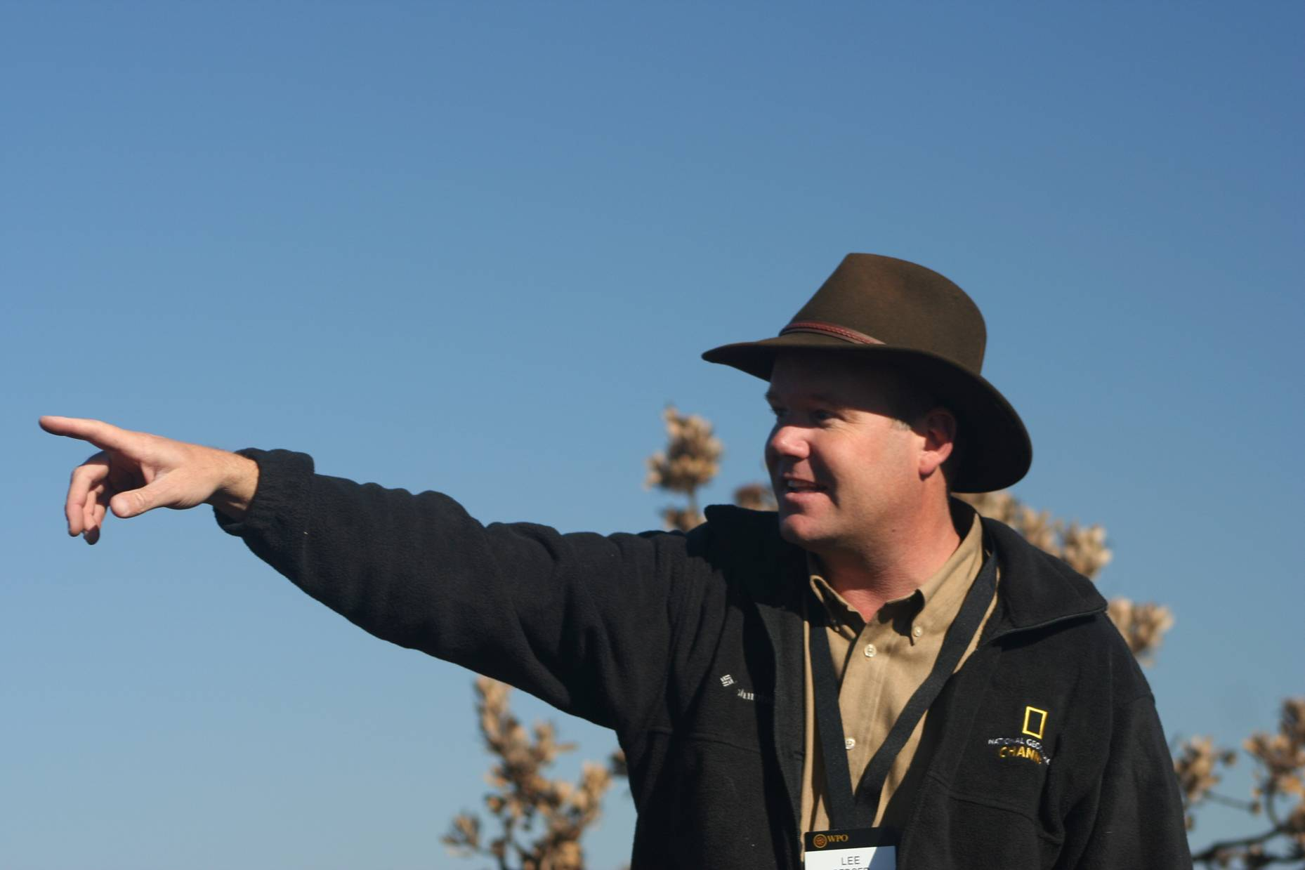 Lee Berger giving a tour in 2006.